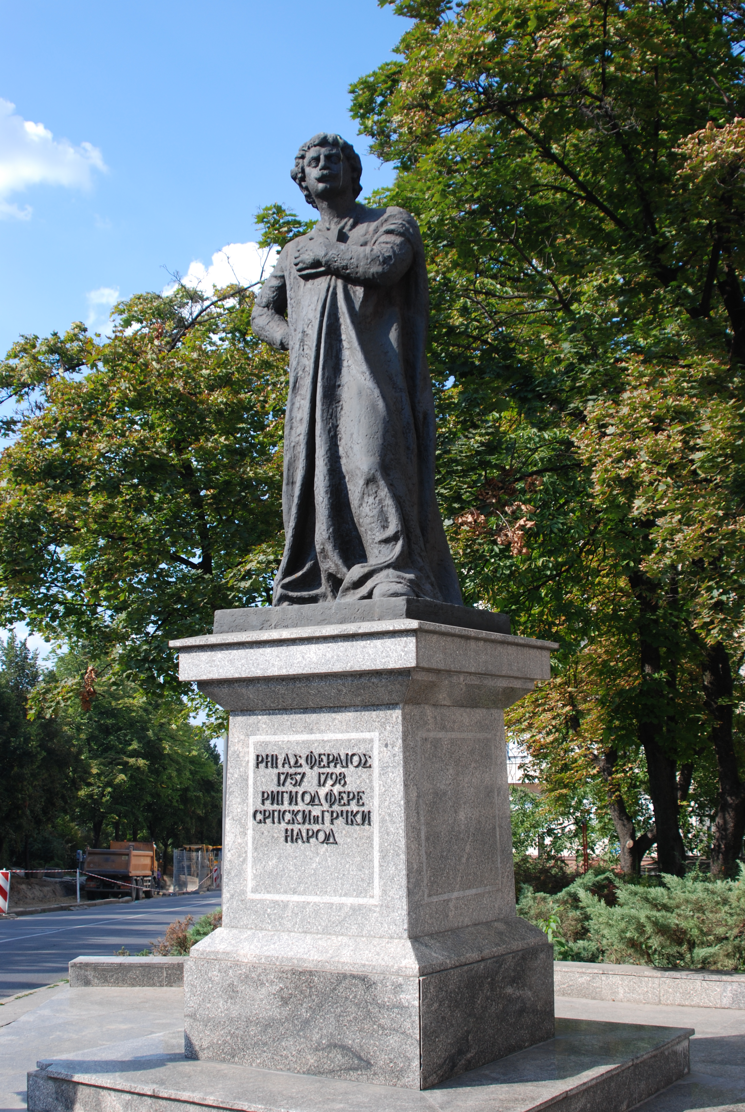 Rigas Feraios or Rigas Velestinlis (1757?June 13, 1798) was a Greek writer and revolutionary, an eminent figure of Greek Enlightenment, remembered as a Greek national hero, the first victim of the uprising against the Ottoman Empire and a forerunner of the Greek War of Independence.